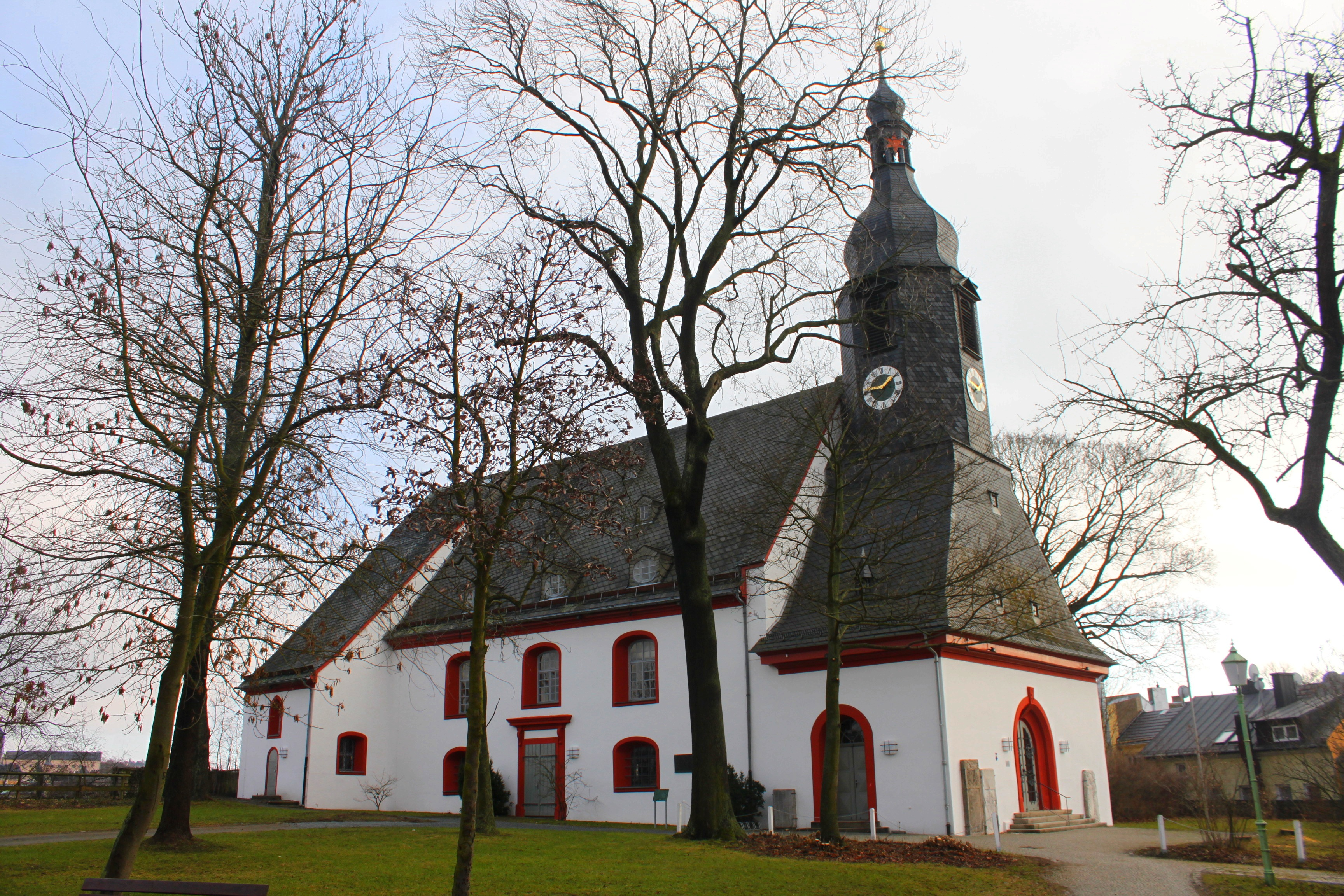 The Lorenz church in Hof (Saale)